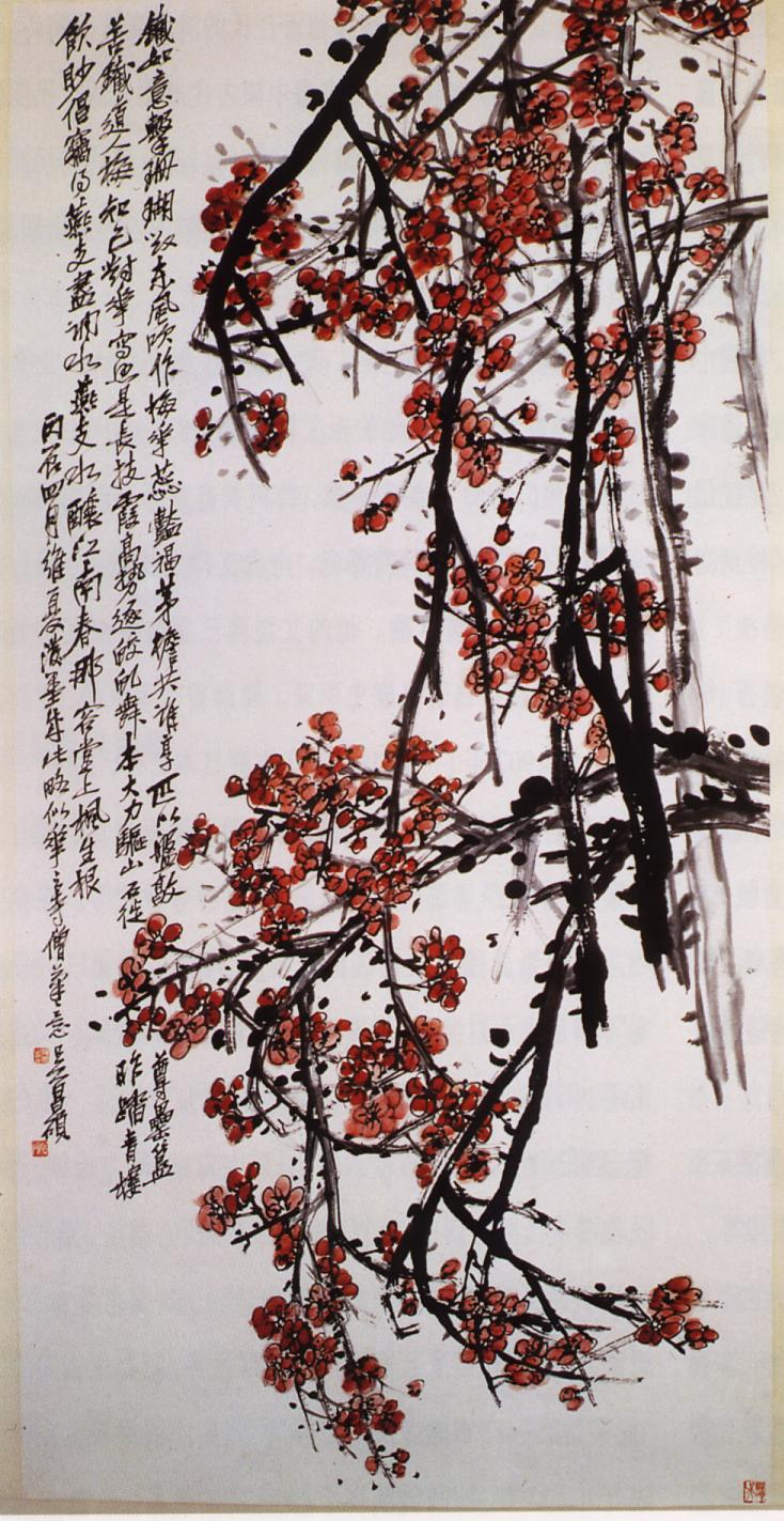 Plum blossom 中文（台灣）: 梅花圖